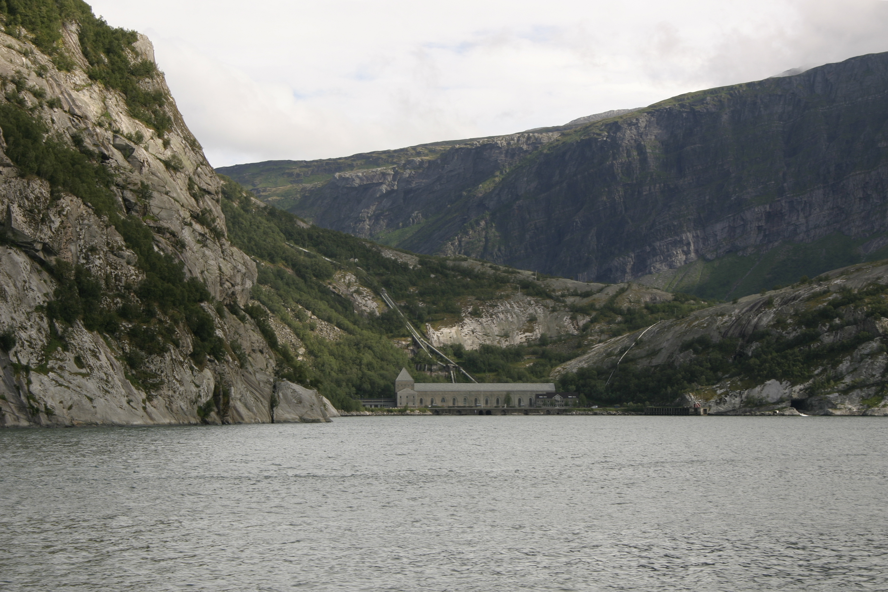 Glomfjord's hydroelectric power plant in Norway with surroundings and water pipes visible. Photo was taken from road 17 in afternoon, 2008-07-18.